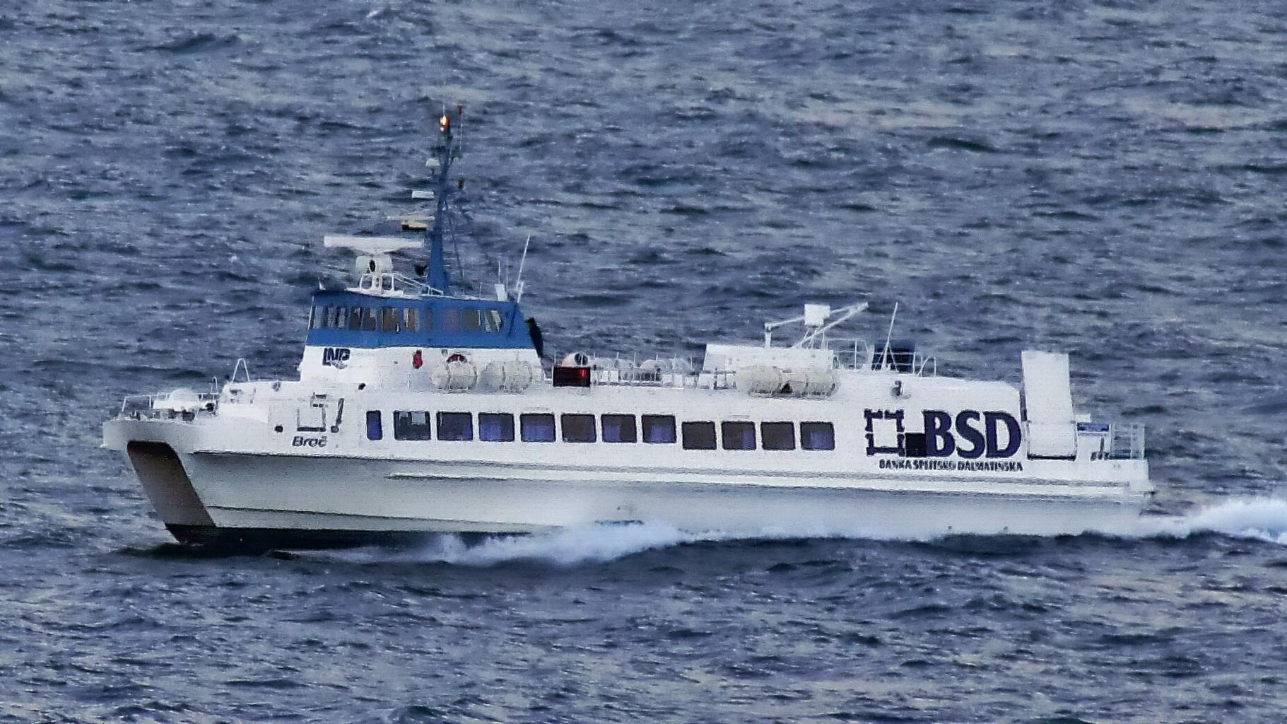 High Speed vessel of the Westamaran Type W95 arrives in Split, on Mar 19, 2013, 07:27:41 CET, from Rogač, Šolta Island